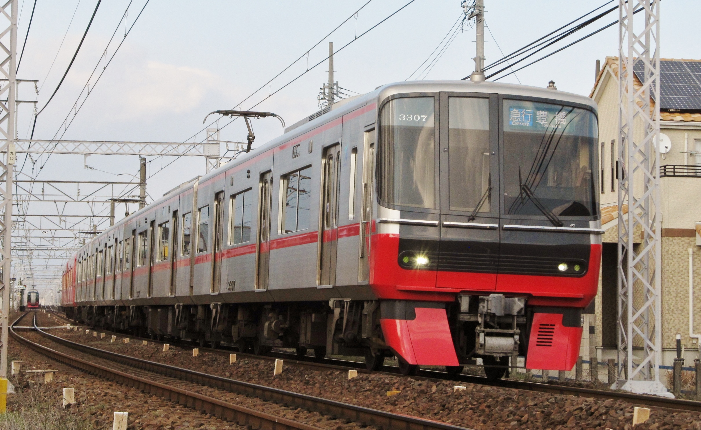 Meitetsu 3300 series EMU set 3307 on an express service for Toyohashi